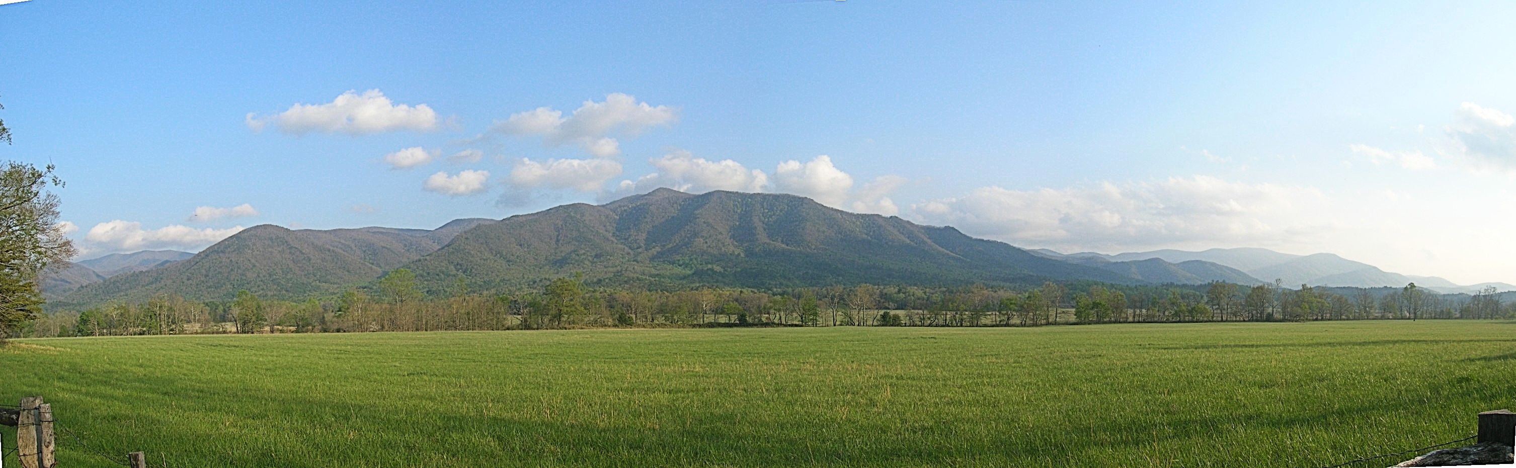 The scenic mountain valley setting of Cade's Cove makes it a popular destination for tourists in the Great Smoky Mountains.